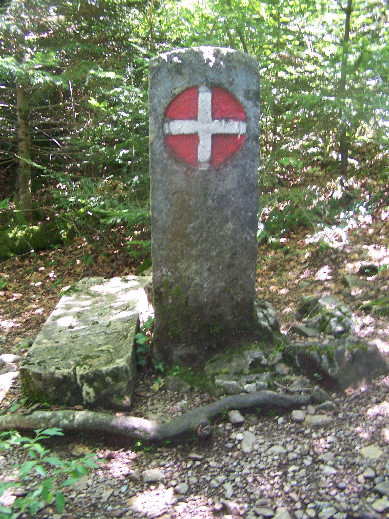 Placed in 1822, border-stone separing Savoie and the French royalty. On this side can be seen the Savoyan coat of arms.